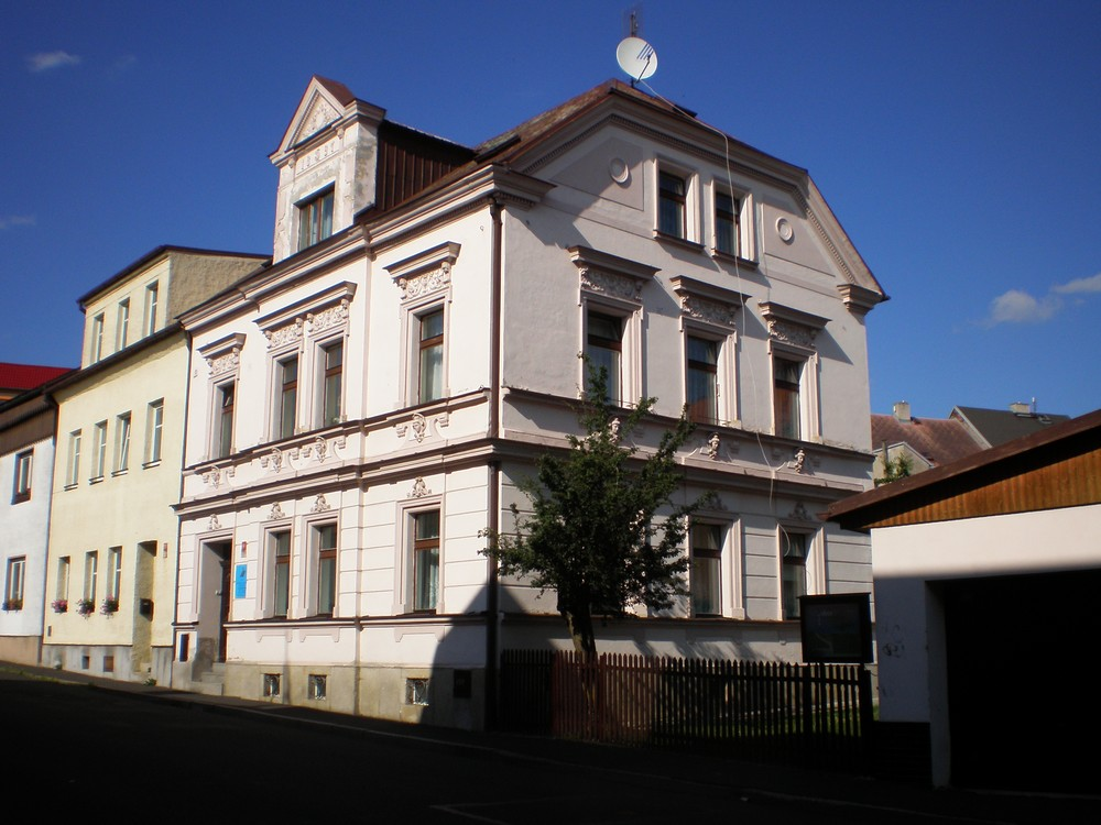 Aš, baptists chapel (Táborská street)